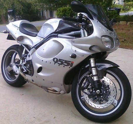 Picture of a 2000 Triumph Daytona 955 SuperBike